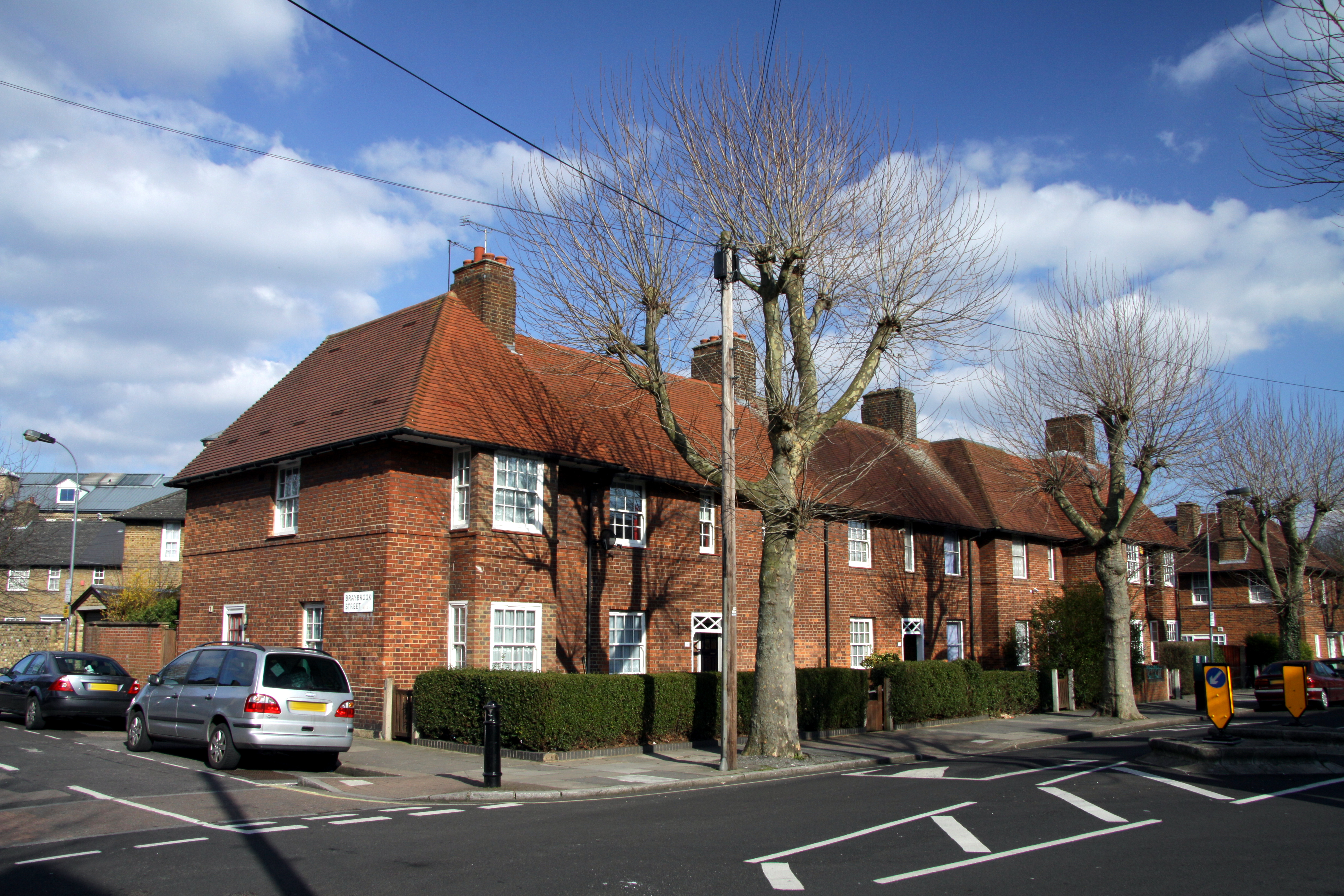 Wulfstan Street with Braybrook Street junction in London Borough of Hammersmith and Fulham, London, Great Britain.